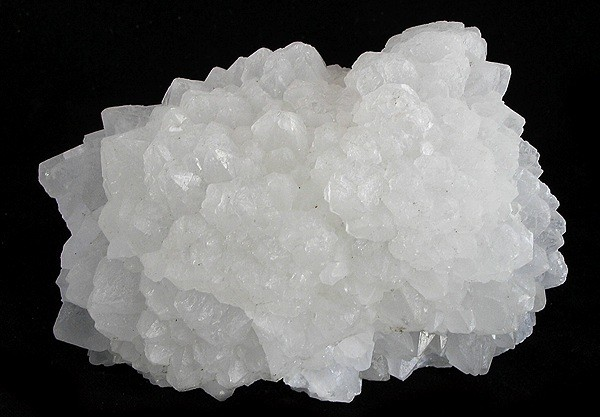 Witherite Locality: Fallowfield Mine, Acomb, Tyne Valley, Northumberland, England, UK (Locality at ) Size: 9.9 x 7.4 x 4.8 cm. According to the accompanying label, this large, old and super-rich specimen of English witherite spent time in the collection of the Geology Department of Upsala College probably in the 1800s or early 1900s. The massed, frosty crystals rise 3.5 cm to their pointed terminations.